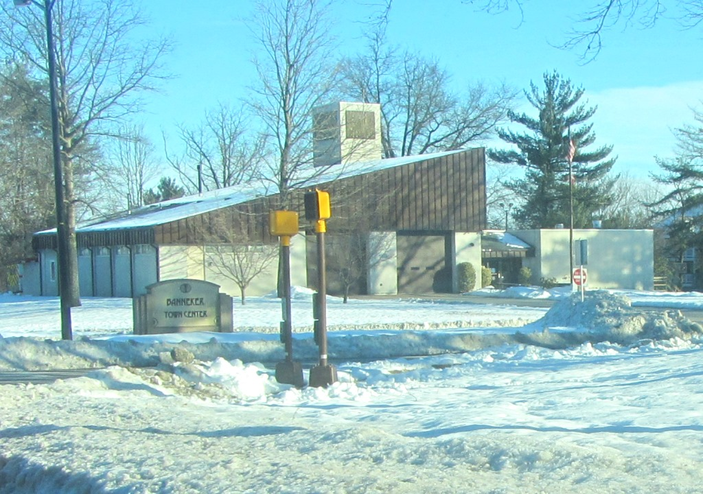 Howard County Maryland Banneker Fire Station